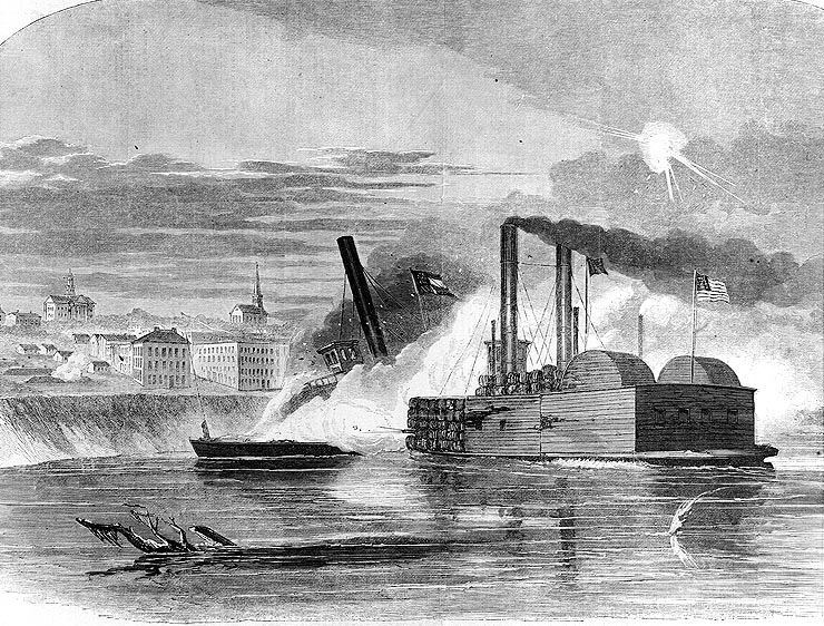 The Federal Ram 'Queen of the West' attacking the Rebel Gun-boat 'City of Vicksburg' off Vicksburg, Mississippi on 2 February 1863.